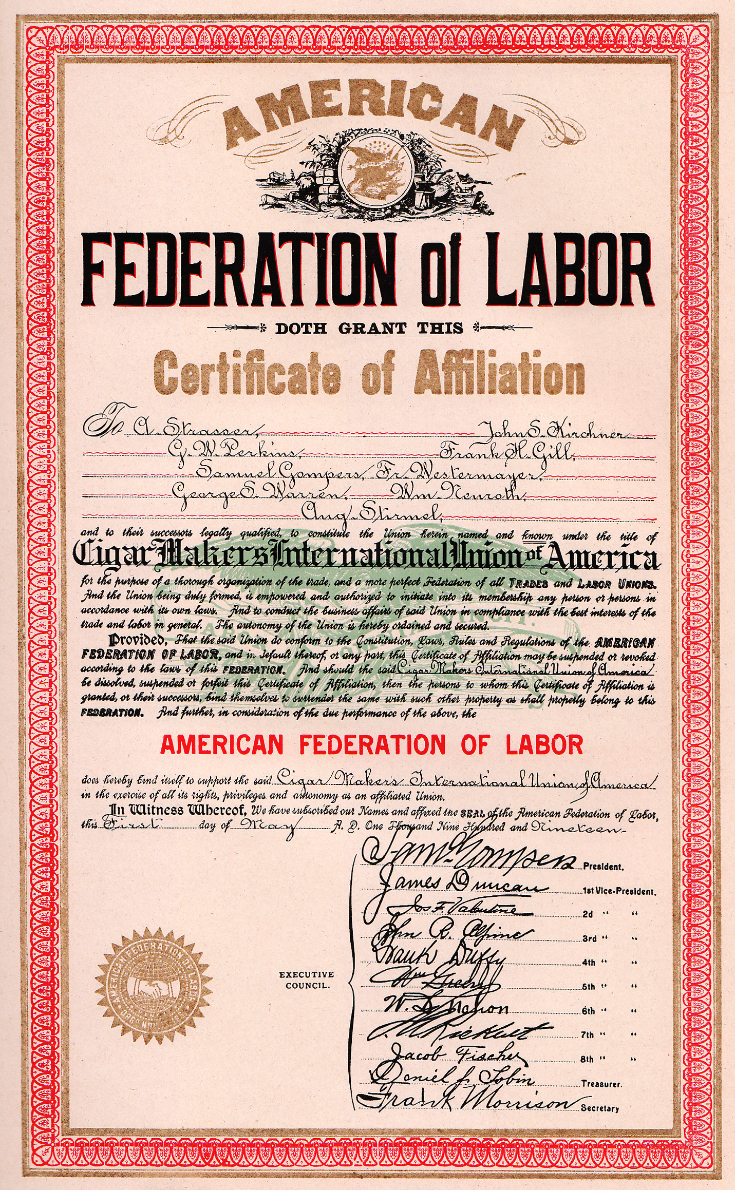 American Federation of Labor charter for the Cigar Makers International Union of America, 1919. Published in American Federation of Labor: History, Encyclopedia, Reference Book, photo plate between pages 48 and 49. Published by the American Federation of Labor, 1919. Published in USA prior to 1923, public domain. Digitized by Tim Davenport for Wikipedia, no copyright claimed.